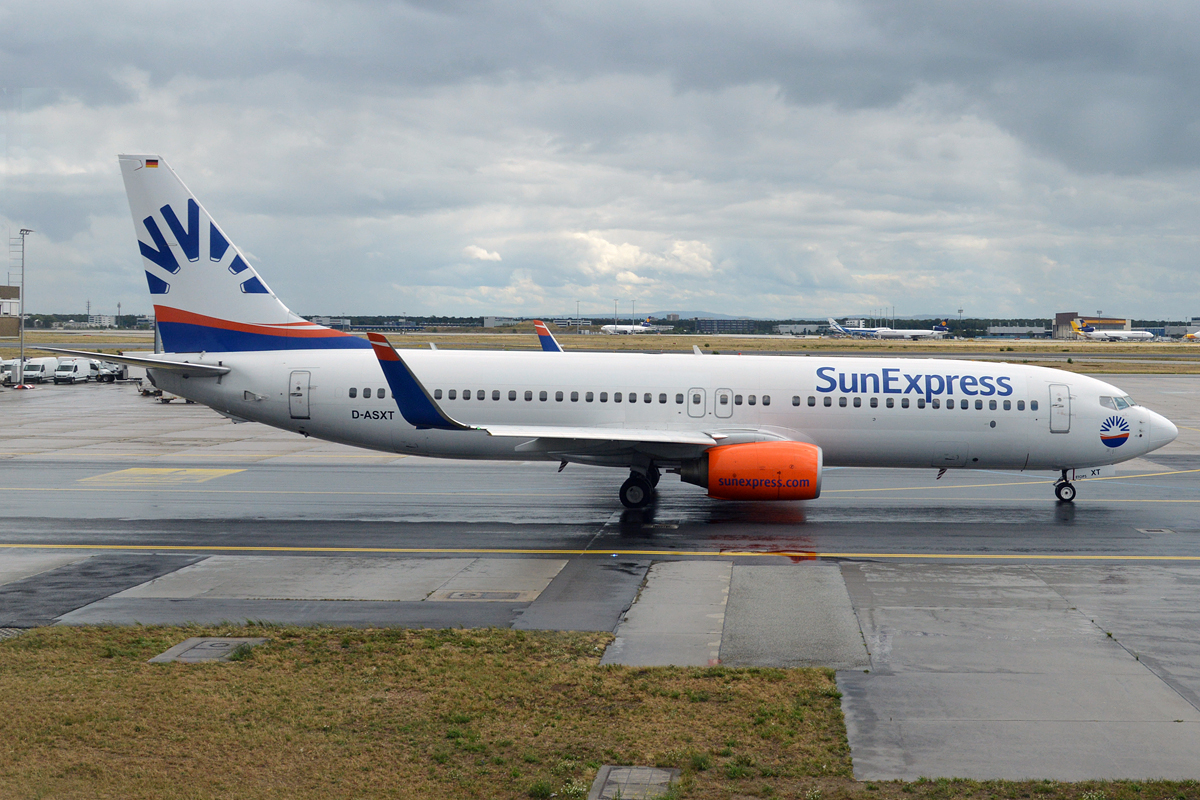 SunExpress Germany, D-ASXT, Boeing 737-8EH